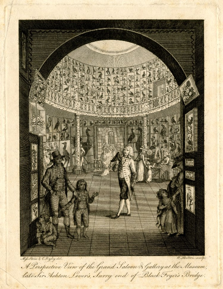 Display of the Leverian Museum collection at the Surrey Rotunda.